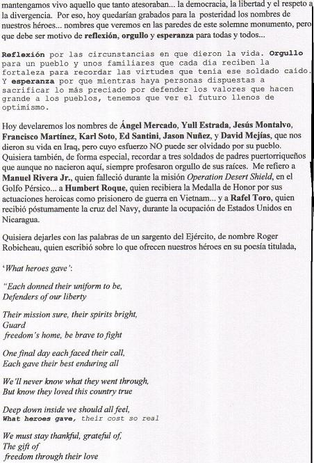 =Photograph of the a portion of the speech, where the President of the Senate of Puerto Rico, Hon. Kenneth McClintock honors Capt. Humbert Roque Versace, on Memorial Day 2007 Rationale As is the case with all public documents in all states and territories of the United States, the text of the Memorial Day Speech are free to be duplicated in Wikipedia or any other media since they are public documents, produced at taxpayer expense, and intended for wide dissemination.